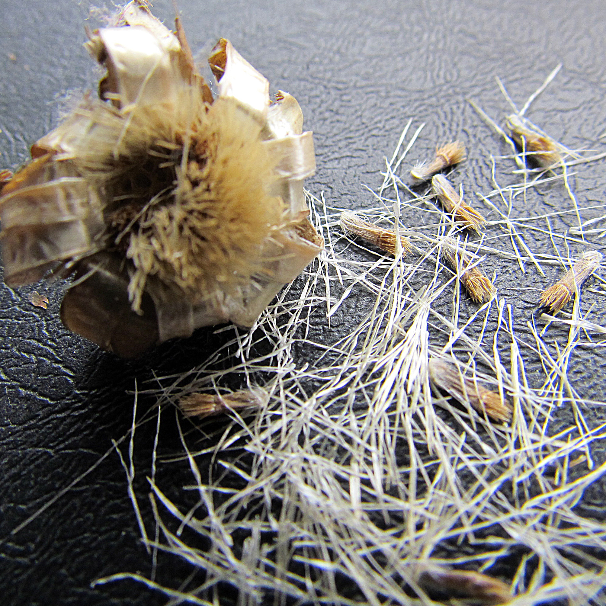 Centaurea cineraria cypselae